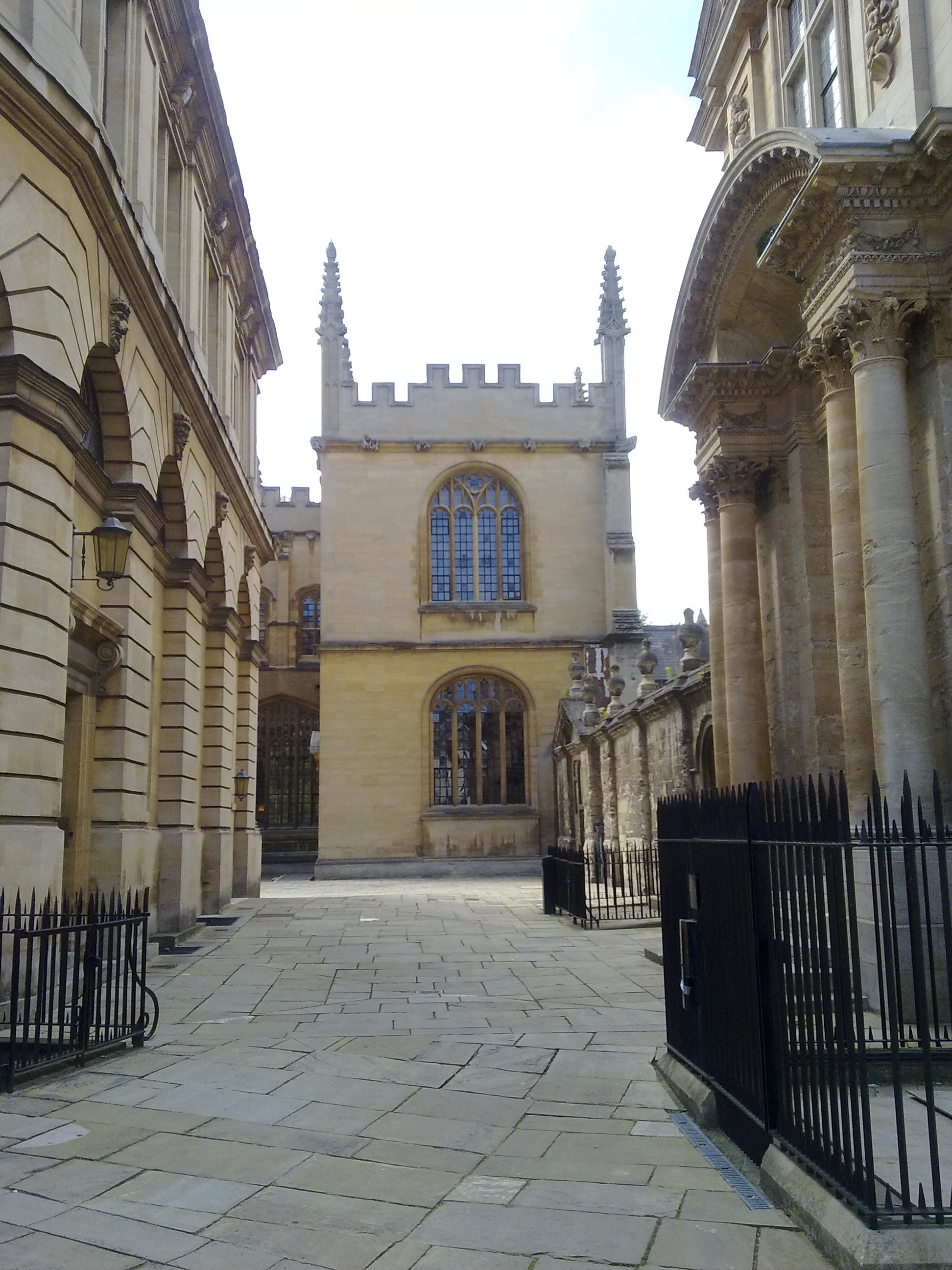 The exterior of Convocation House, a building of the University of Oxford connected to the Bodleian Library in Oxford, England, from the north, adjacent to the Sheldonian Theatre (on the left). The side of the Museum of the History of Science is to the right.